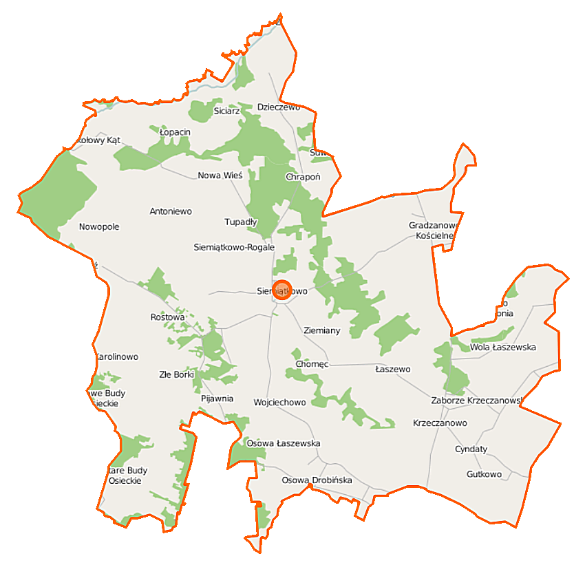 Map of Gmina Siemiątkowo, Poland This map of Siemiątkowo (gmina) was created from OpenStreetMap project data, collected by the community. This map may be incomplete, and may contain errors. Don't rely solely on it for navigation. Border coordinates52.953219.9210←↕→20.154152.8173